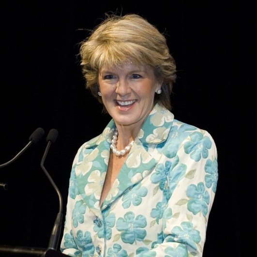 Julie Bishop, Deputy Leader of the Liberal Party of Australia 2007-current